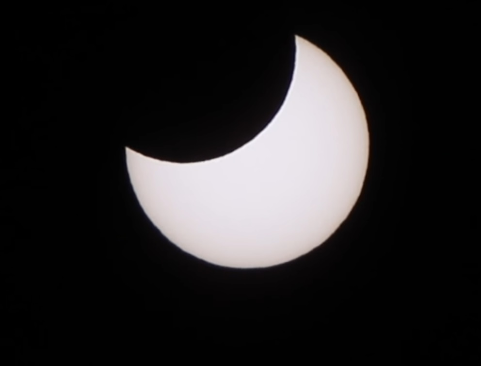 Screenshot of live broadcast of solar eclipse of 2019 January 6 in Nakhodka, Primorsky Krai, Russia. Taken approximately near the greatest phase, at 11:01 local time (01:01 UTC). The video was published with Creative Commons license.